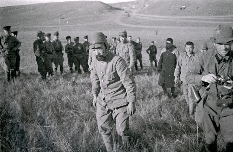 Captured Japanese soldiers, Khalkhyn Gol